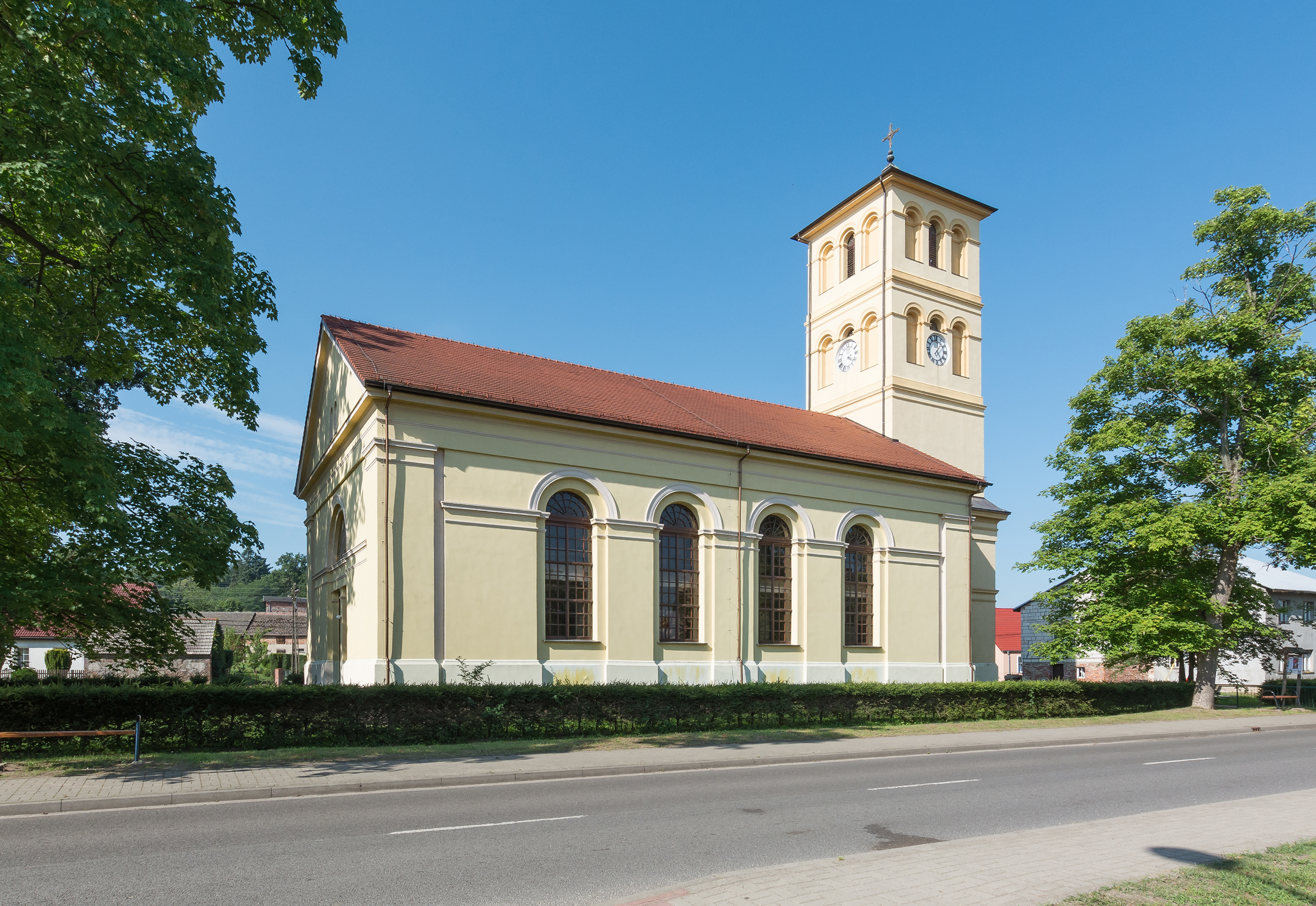 Sacred Heart church in Glisno